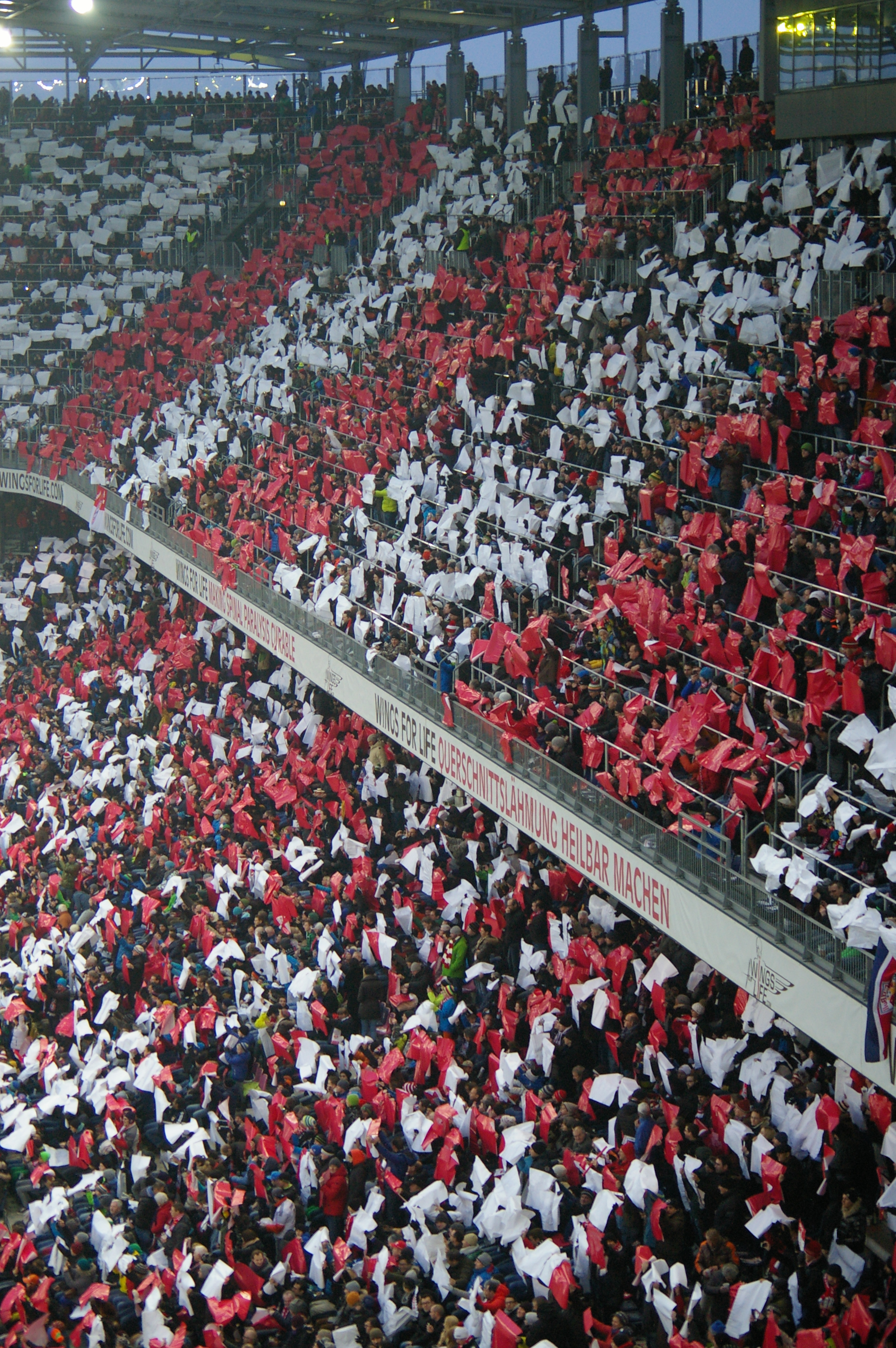 friendly match